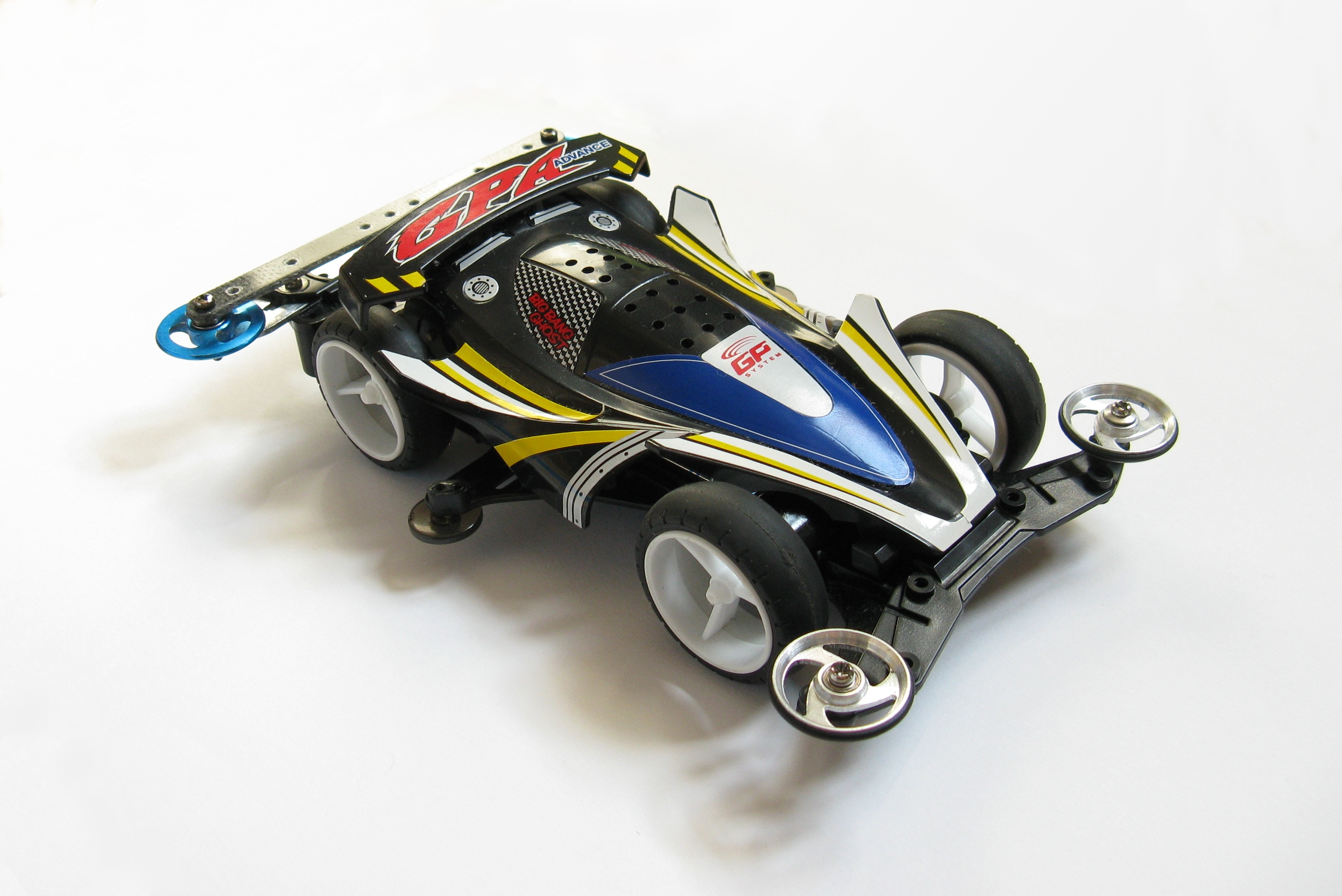 The Mini 4WD Big Bang Ghost GPA with VS chassis (Super Mini 4WD series)